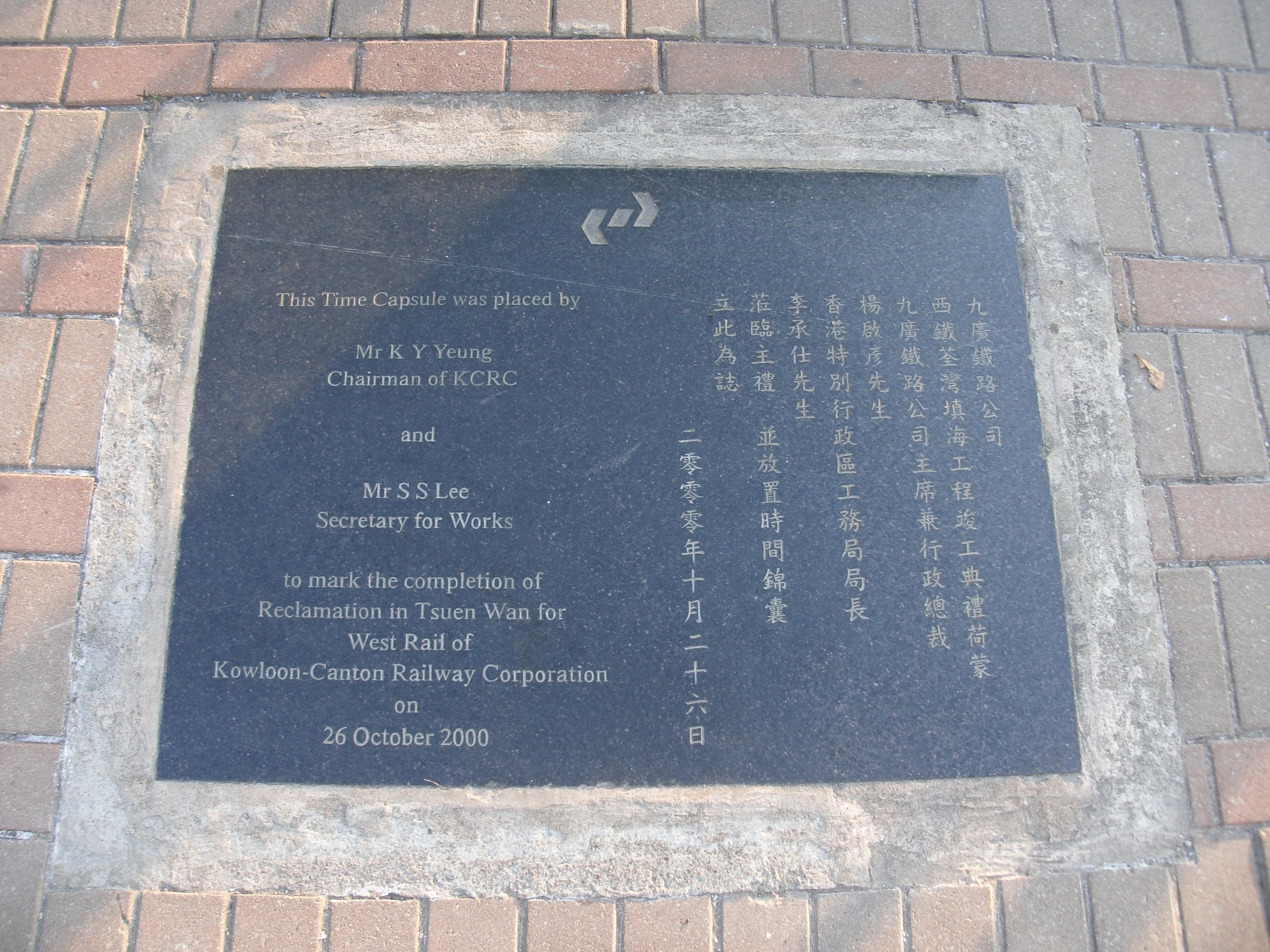 west rail tsuen wan